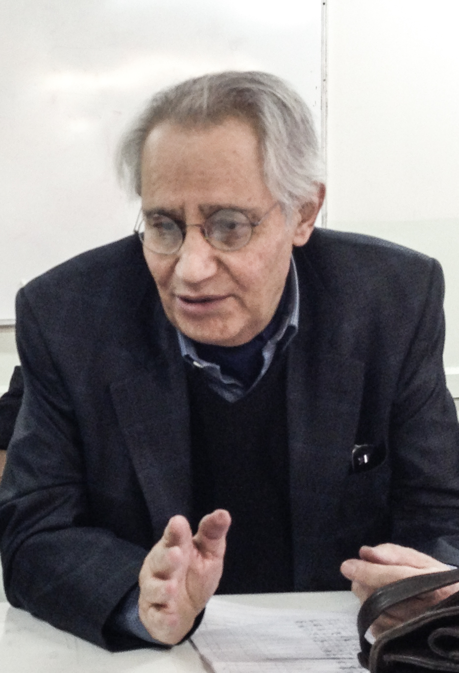 An old man wearing business attire and glasses